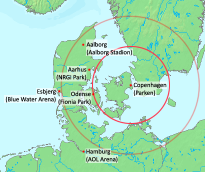 Copenhagen 250 km radius with stadiums